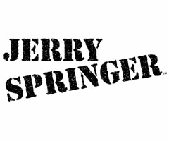 The logo of The Jerry Springer Show, in use since the show's tenth season starting fall 2000.